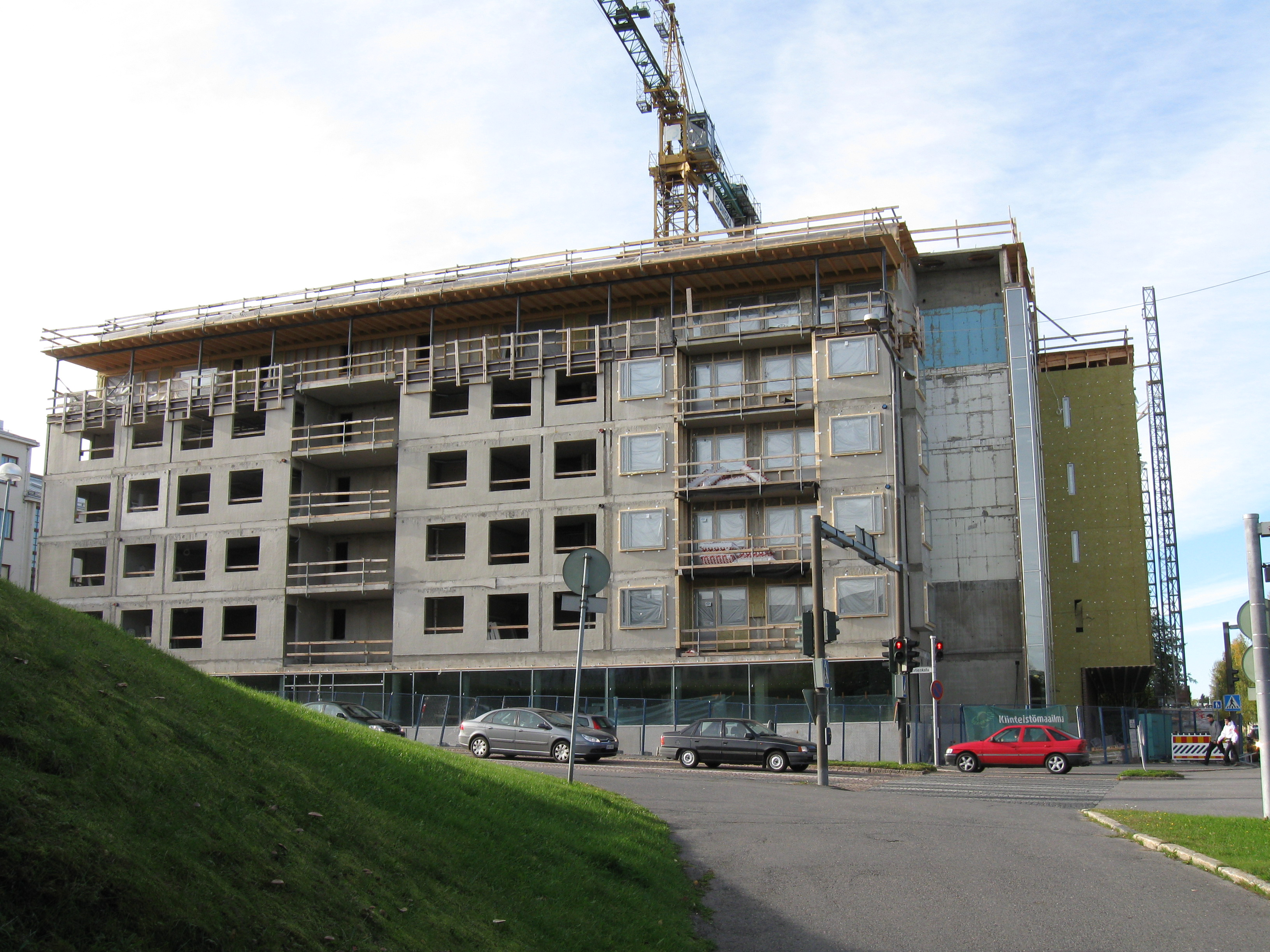 A block of flats under construction in Oulu, at the crossing of Heikinkatu and Rautatienkatu streets - seen towards Heikinkatu.